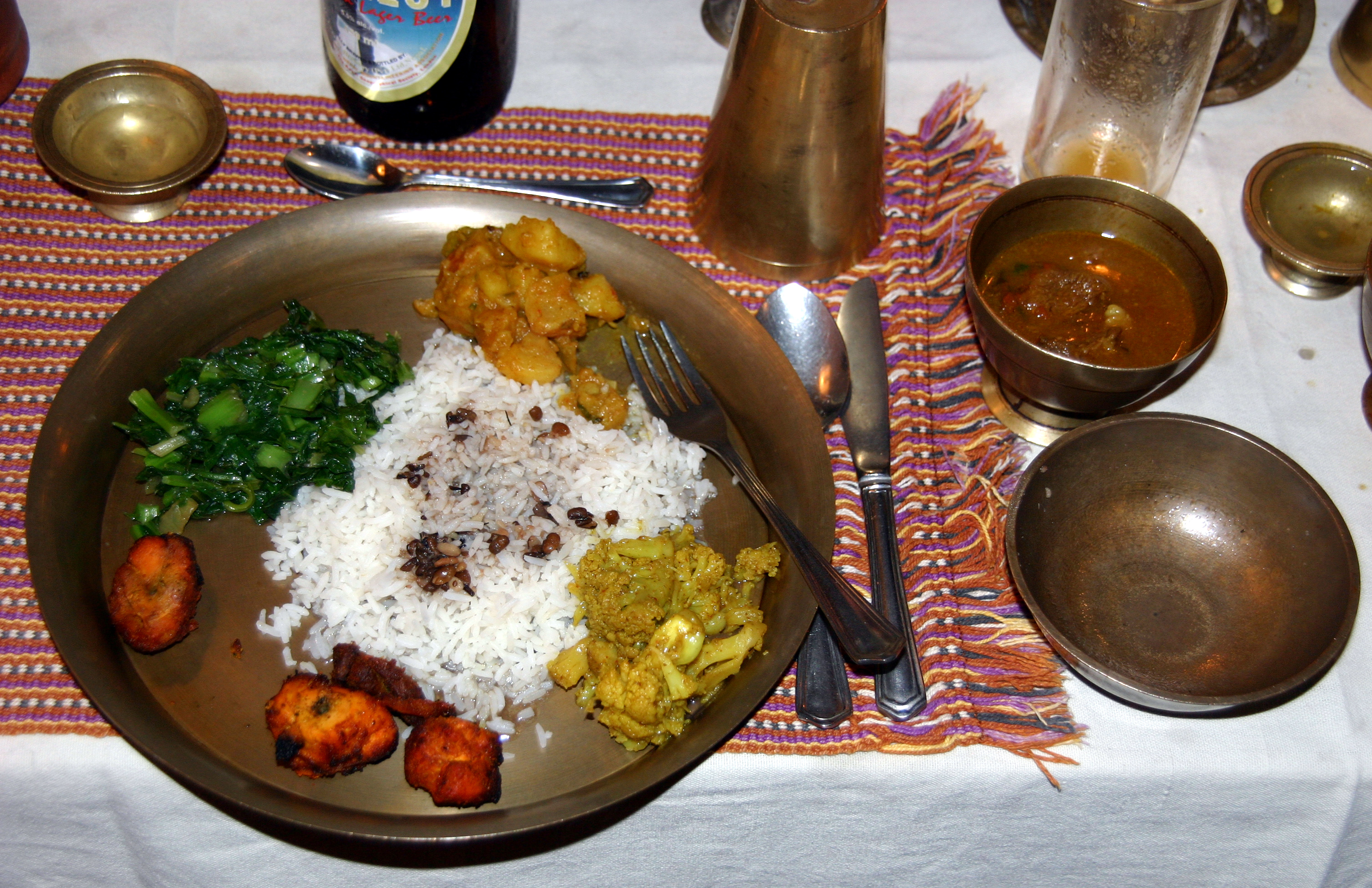 Bhojan Griha Restaurant in Kathmandu in Nepal